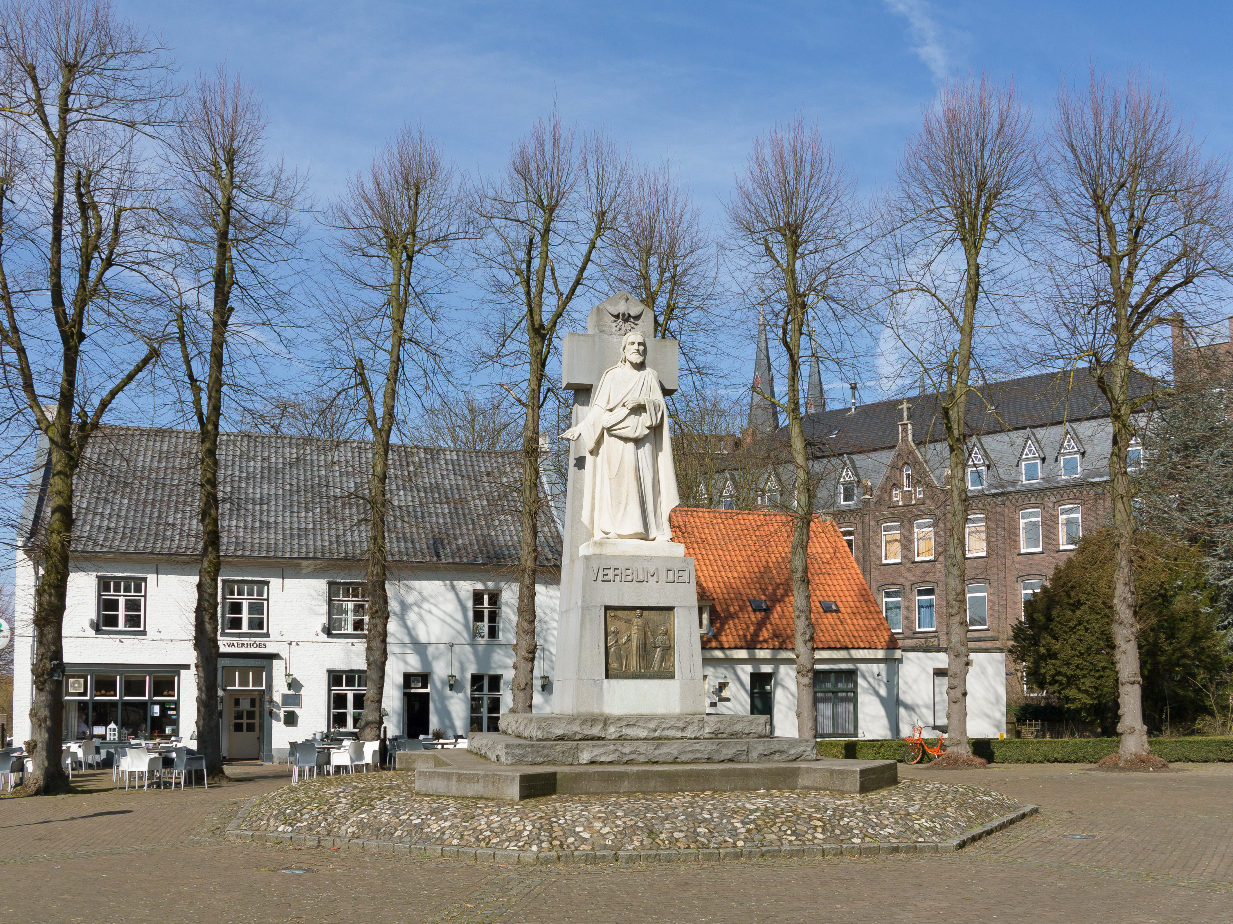 Steyl, sculpture: de Zaaier